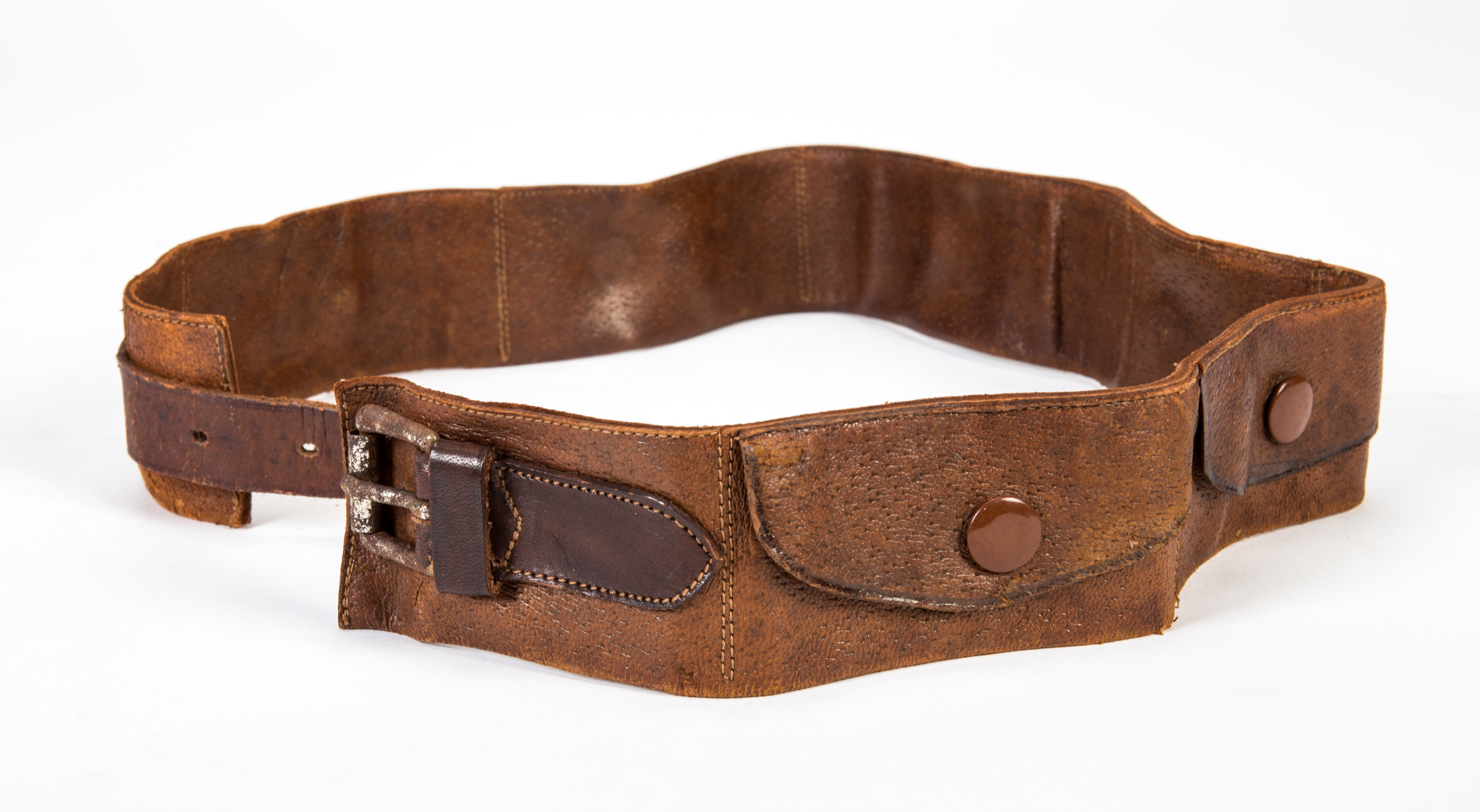 Leather money belt used during WW1 by 2-Lt 61957 Daniel Patrick Reardon, NZ Field Artillery, NZEF pigskin and leather; metal fastenings; six pockets